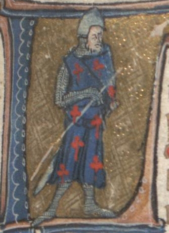 NLS Adv MS 19.2.1 Auchinleck Manuscript 176r.